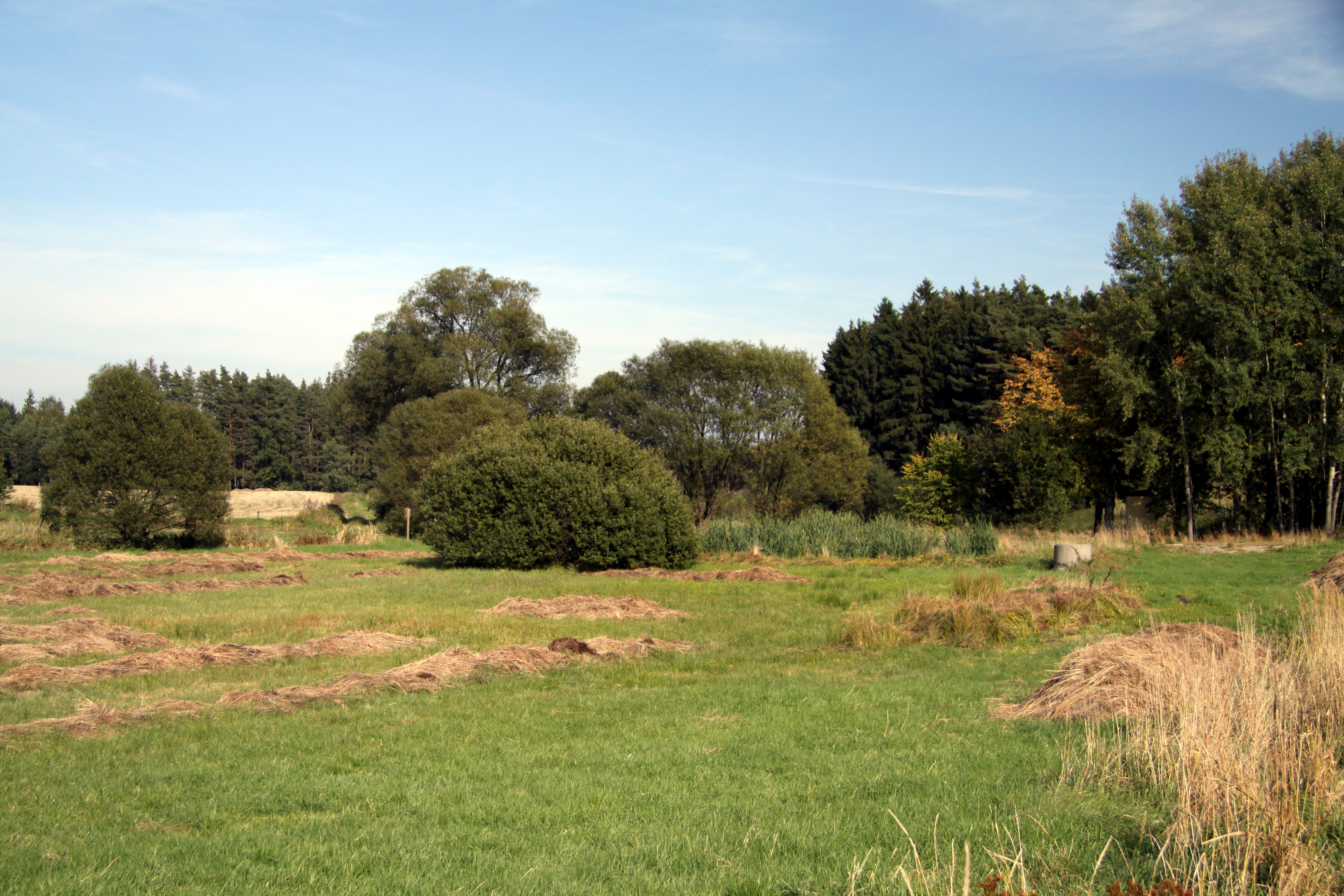 Natural monument Dehetnik, Písek District, Czech Republic - Google Maps - Google Earth